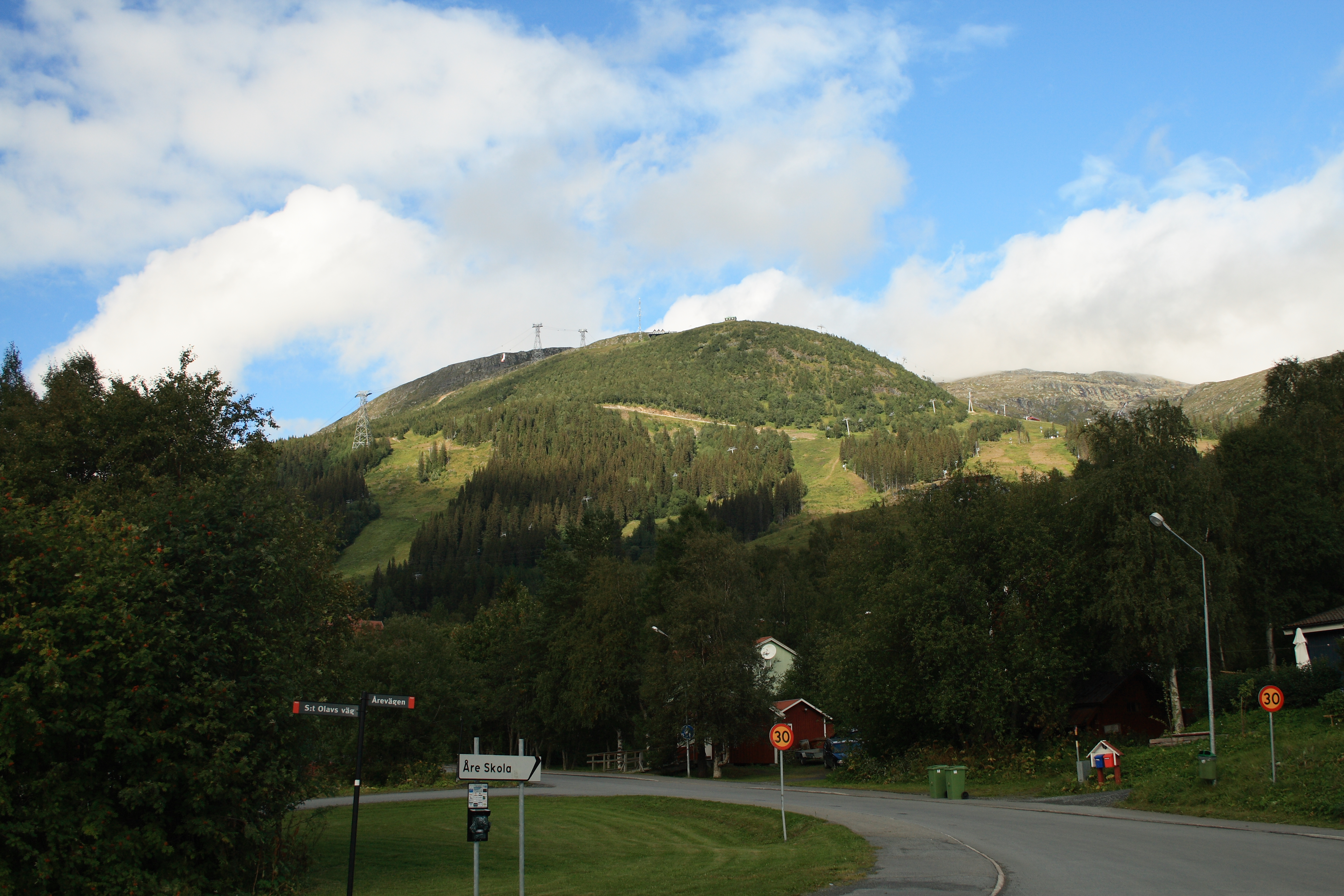 Åreskutan seen in a north-western angle from Åre